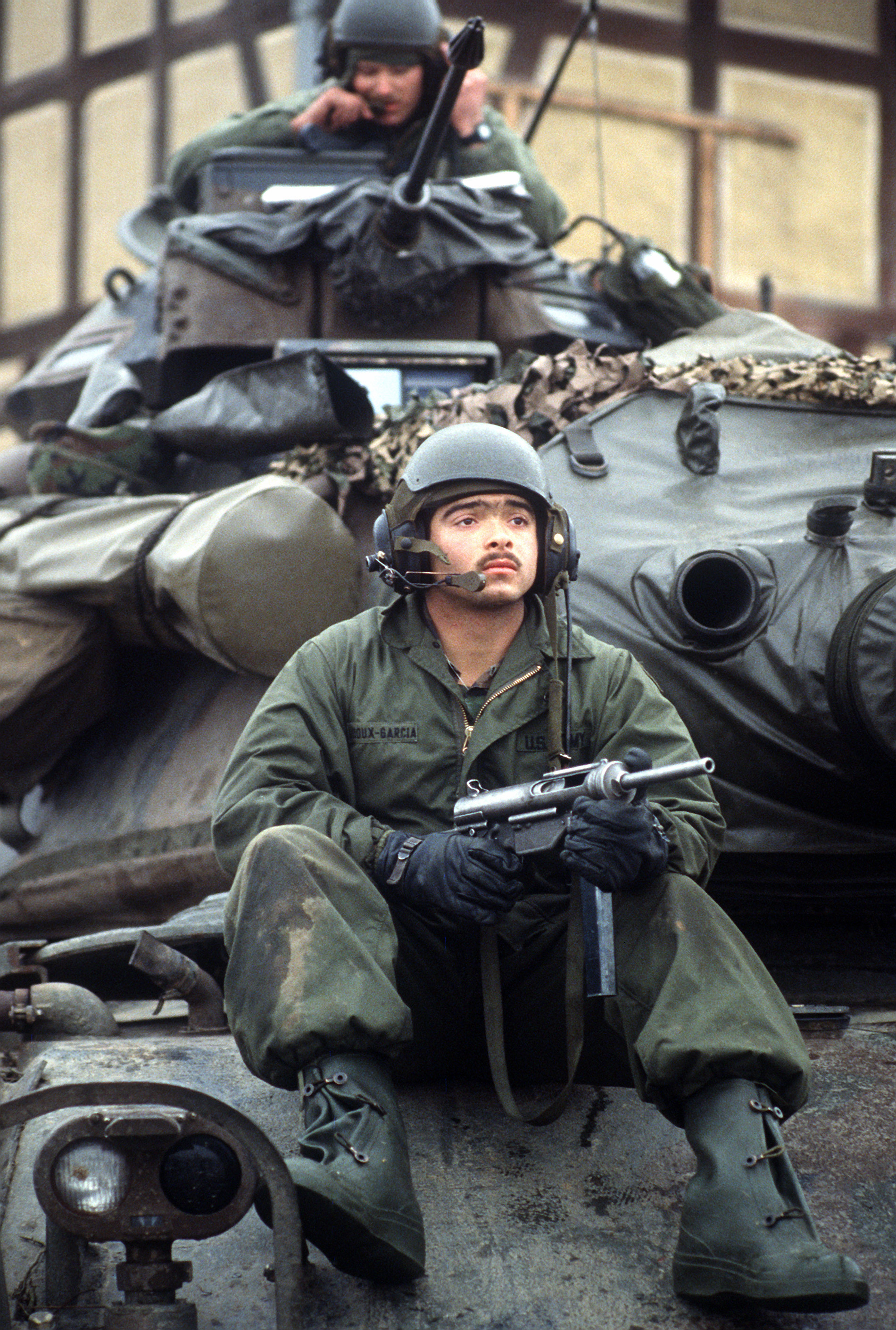 DF-ST-85-13234 - Private First Class (PFC) Jose Ledoux-Garcia of Company C, 5th Battalion, 77th Armor, guards his M60A3 main battle tank during Central Guardian, a phase of Exercise REFORGER '85. He is armed with an M3A1 .45-caliber submarine gun. Base: Giessen, Country: West Germany (FRG)